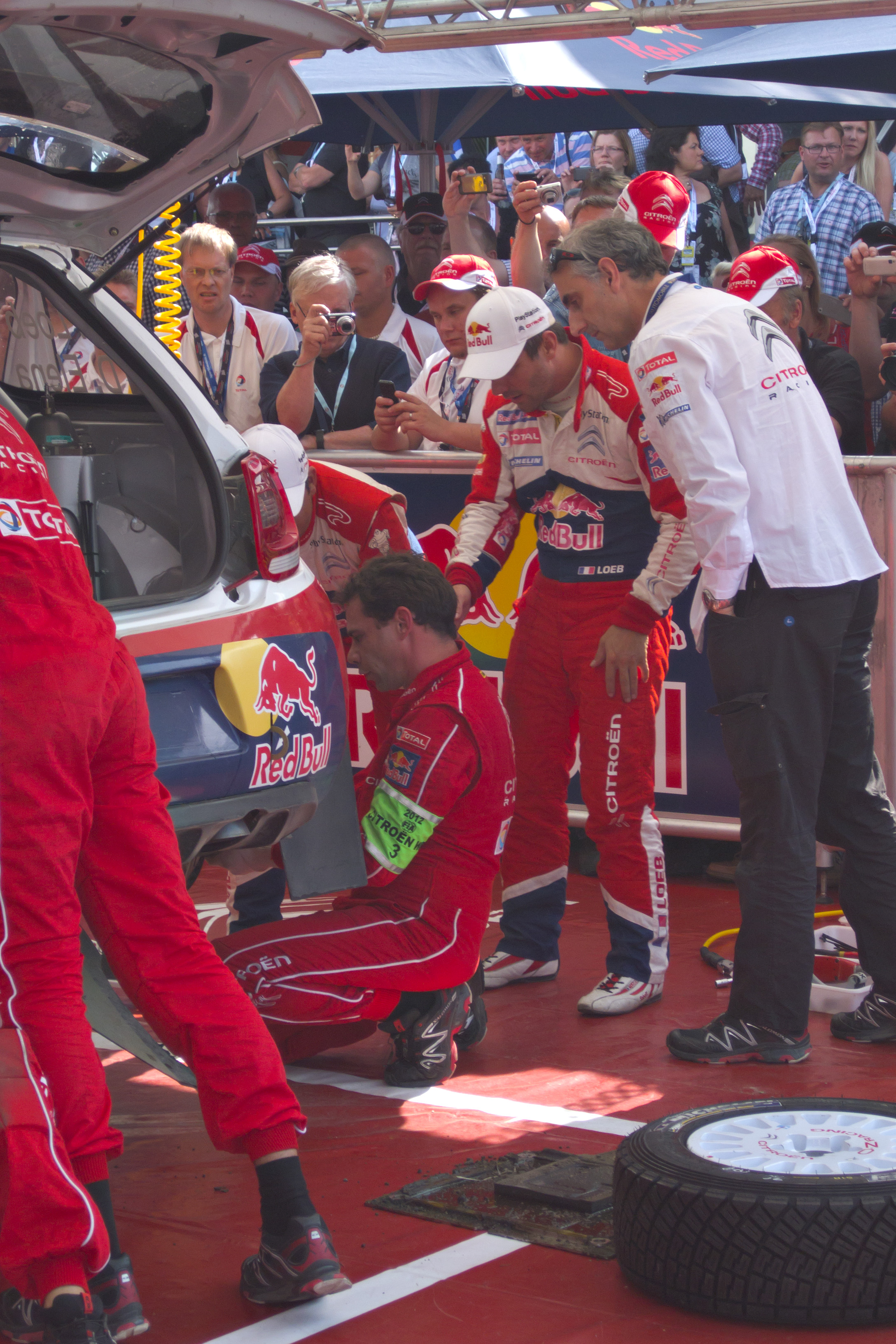 Action from the service D during the 2012 Rally Finland.